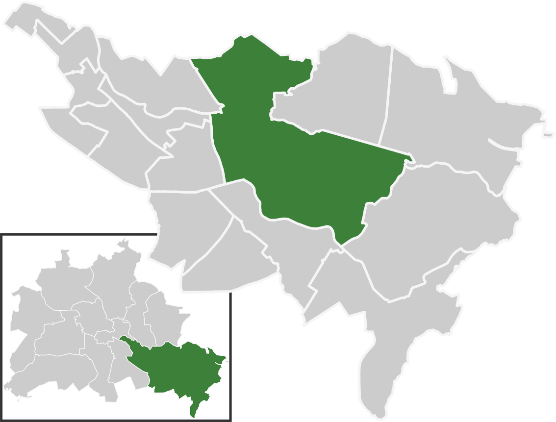 Localitie Köpenick in borough Treptow-Köpenick of Berlin.